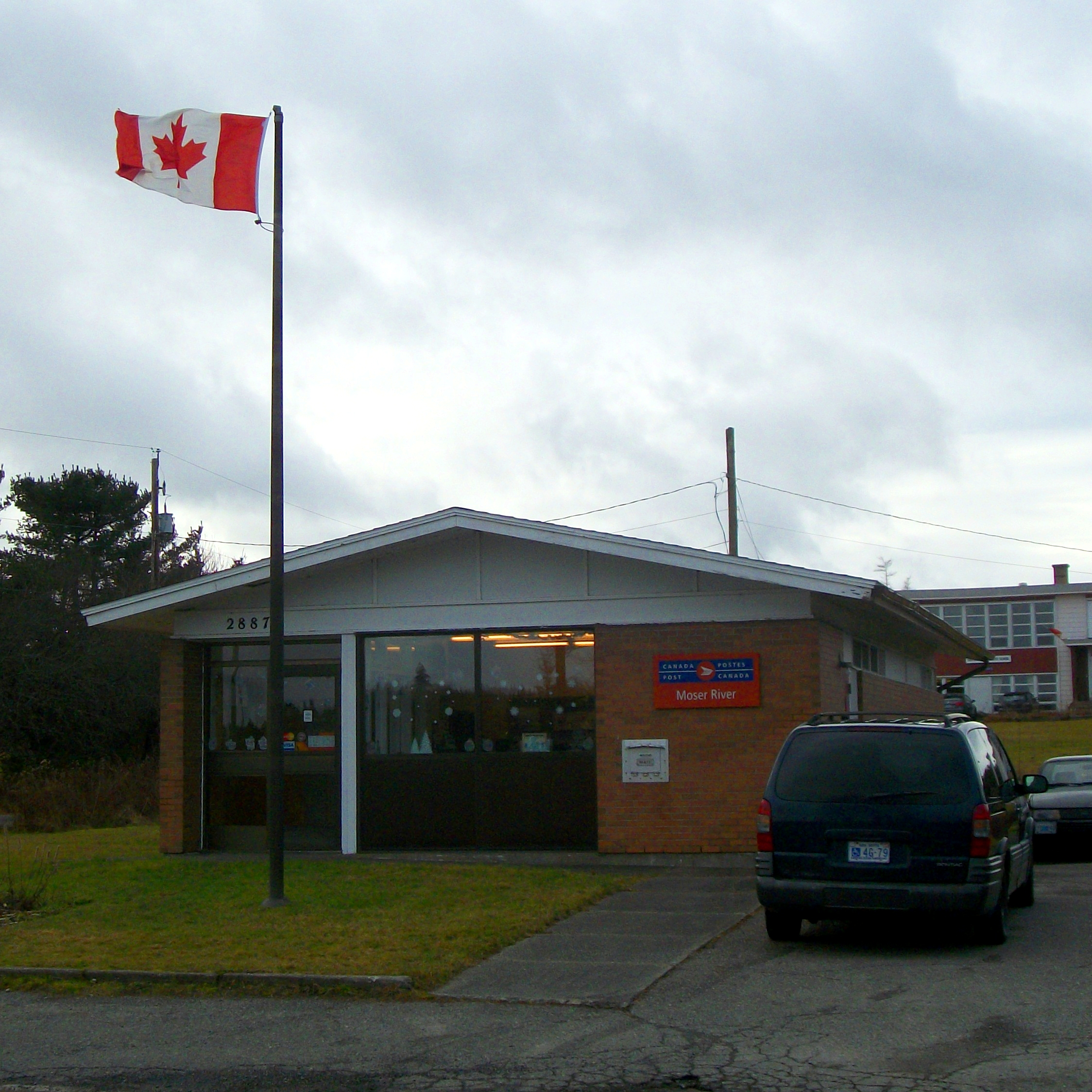 Federal post office in Moser River, Halifax County, Nova Scotia